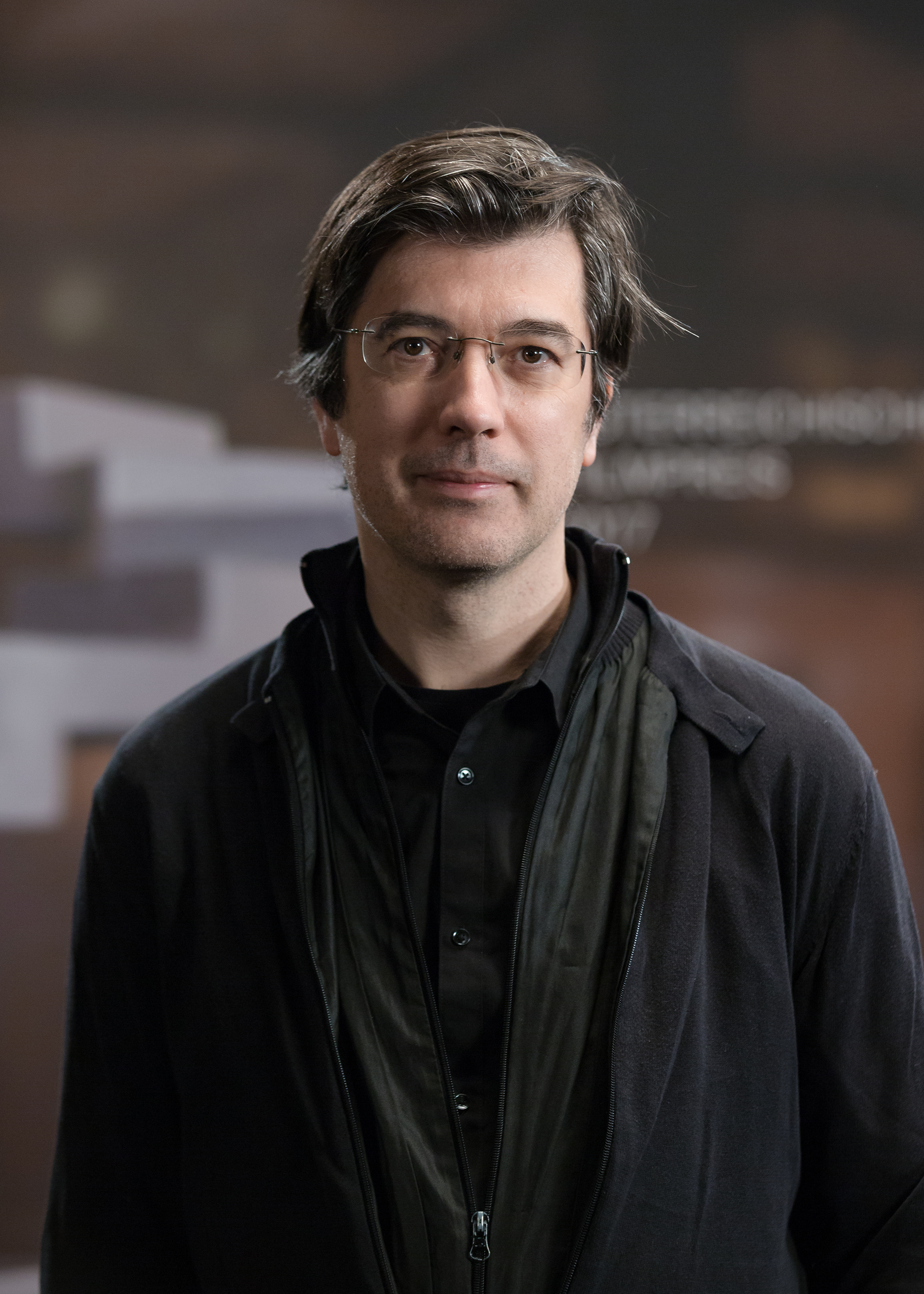 Virgil Widrich, director and author of Die Nacht der 1000 Stunden, at the Austrian Film Awards 2017 (Rathaus, Vienna,Austria).